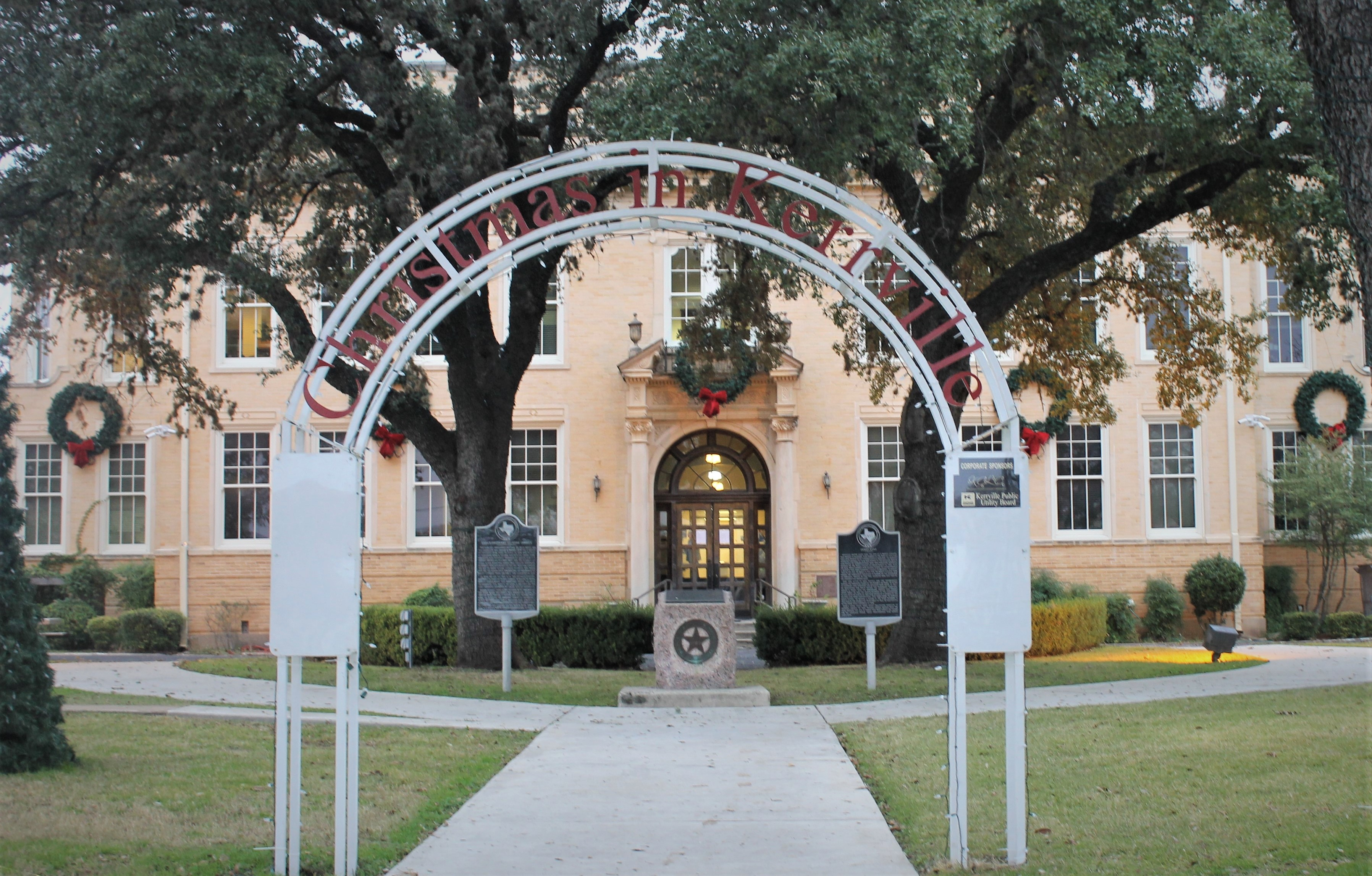 Kerr County courthouse decorated for Christmas, 2016